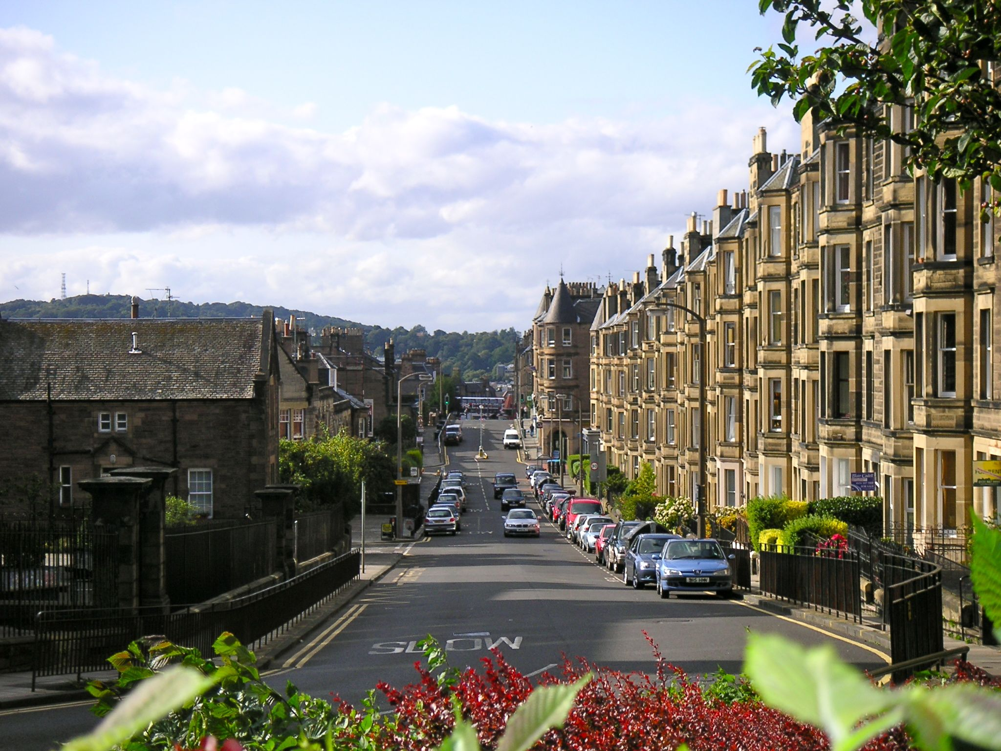 View down Ashley Terrace looking North towards Gorgie